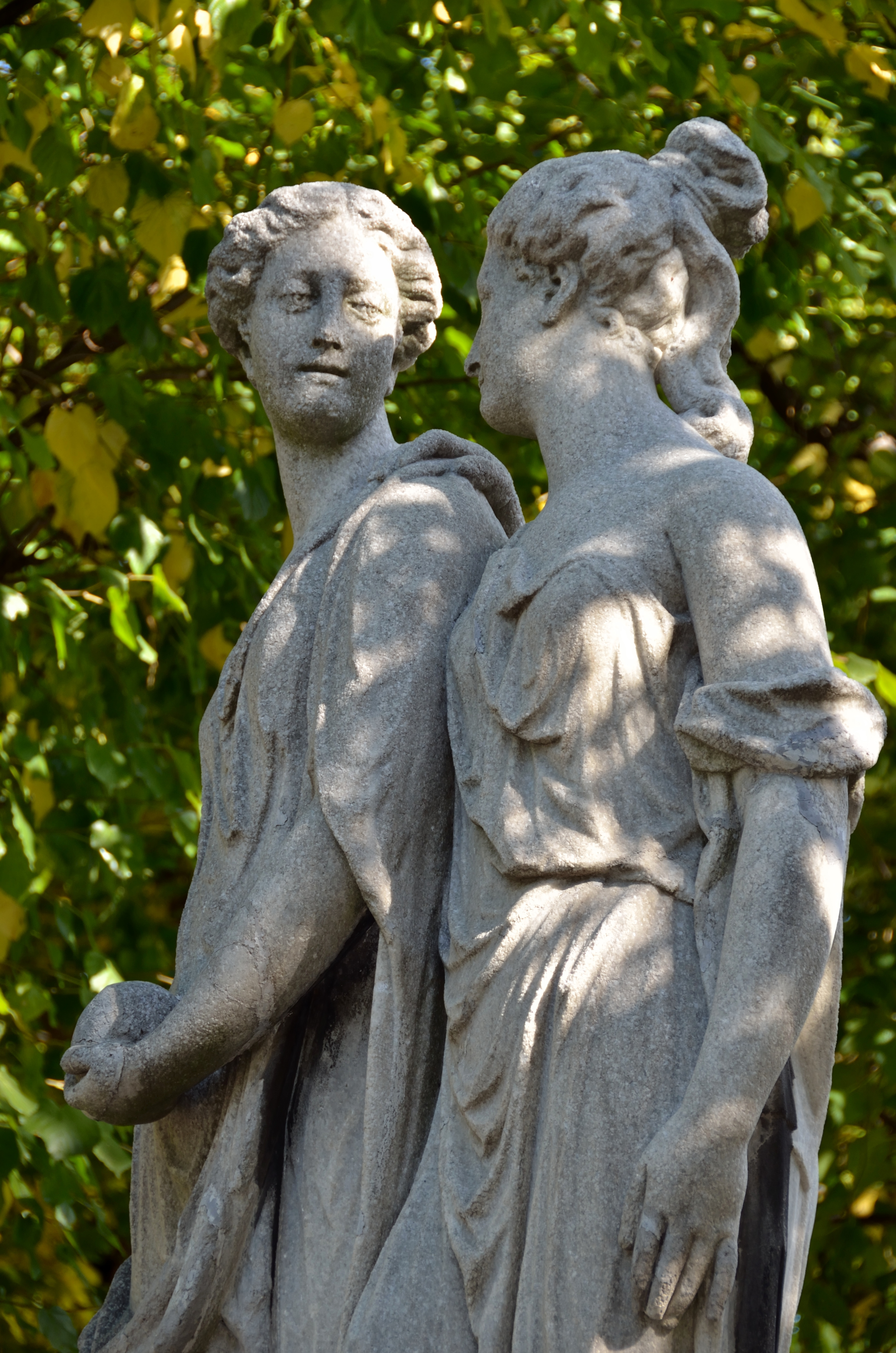 Statue of Hesperia and Arethusa in the gardens of Schönbrunn.